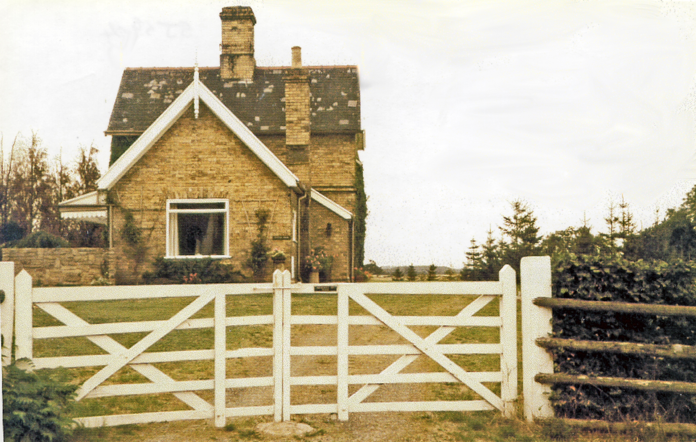 Former Cressage station, 1983, View NW towards Shrewsbury: ex-GWR Shrewsbury - Bridgnorth - Hartlebury (Severn Valley) line, closed with the line 9/9/63. Evidently the station house has been acquired privately.